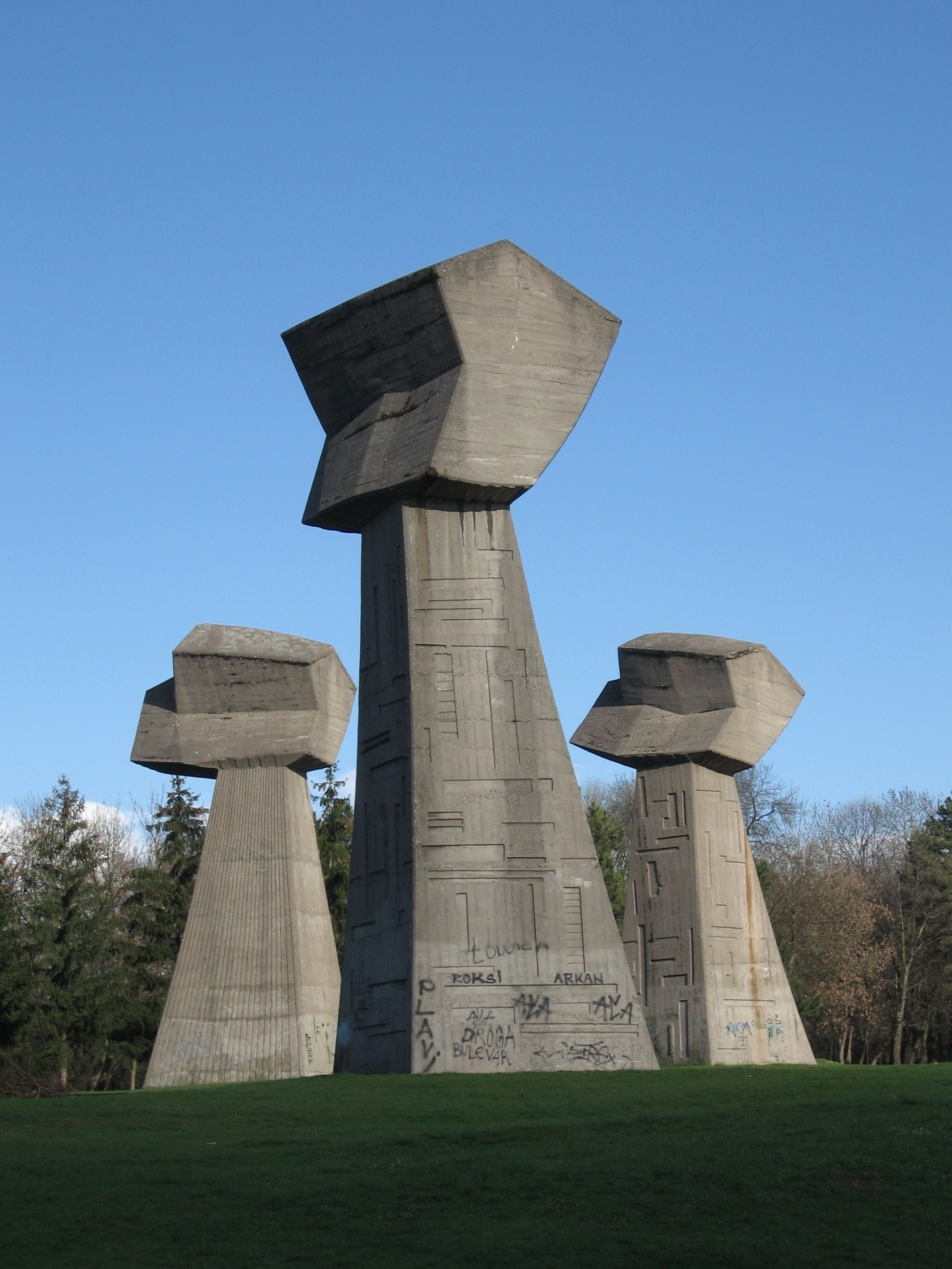 Bubanj Memorial, in a shape of a three fists. Niš, Serbia